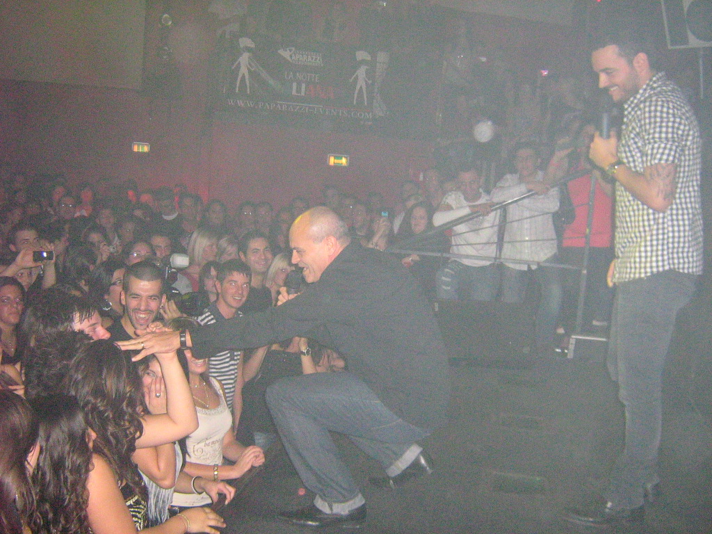 Giovanni with his father Bruno Zarrella